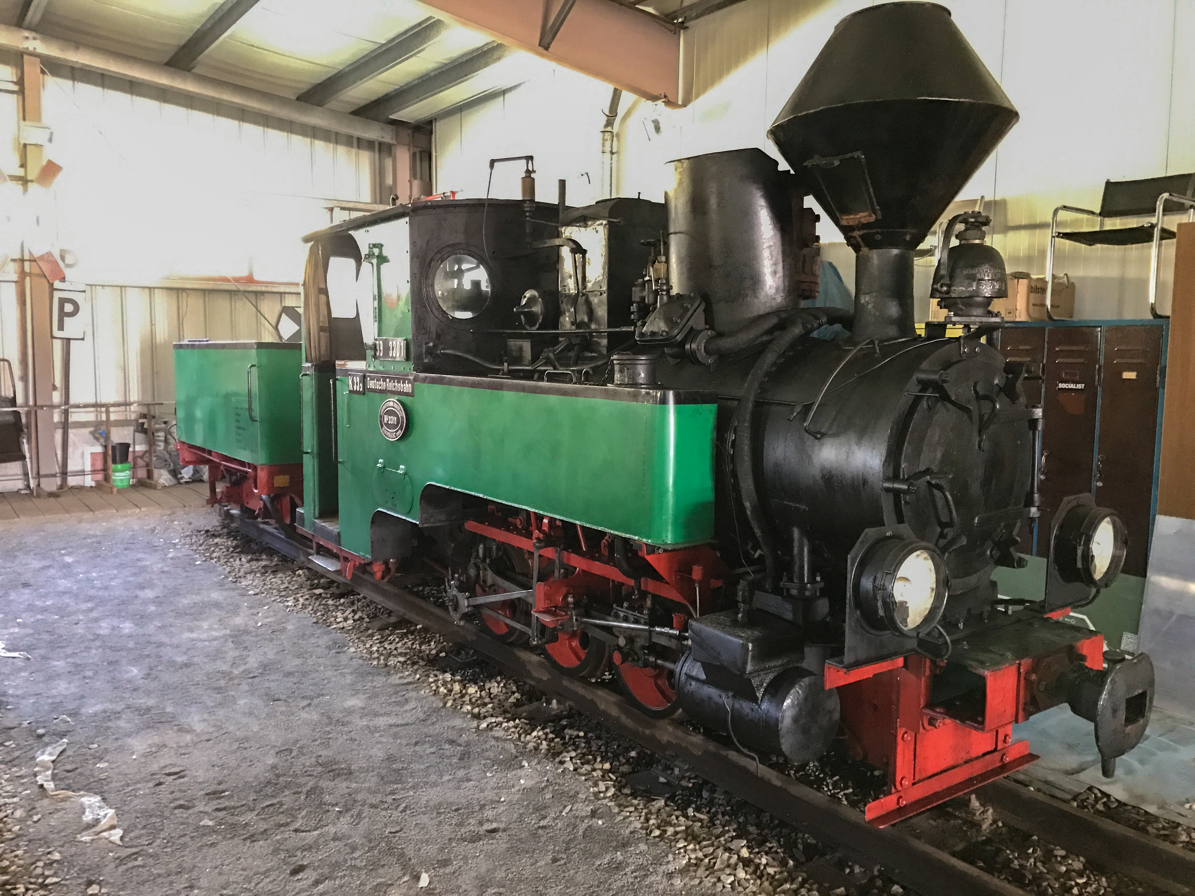 krauss /1895, formerly Muskau's Graf von Arnim. 0-6-0TT Awaiting overhaul in the depot.